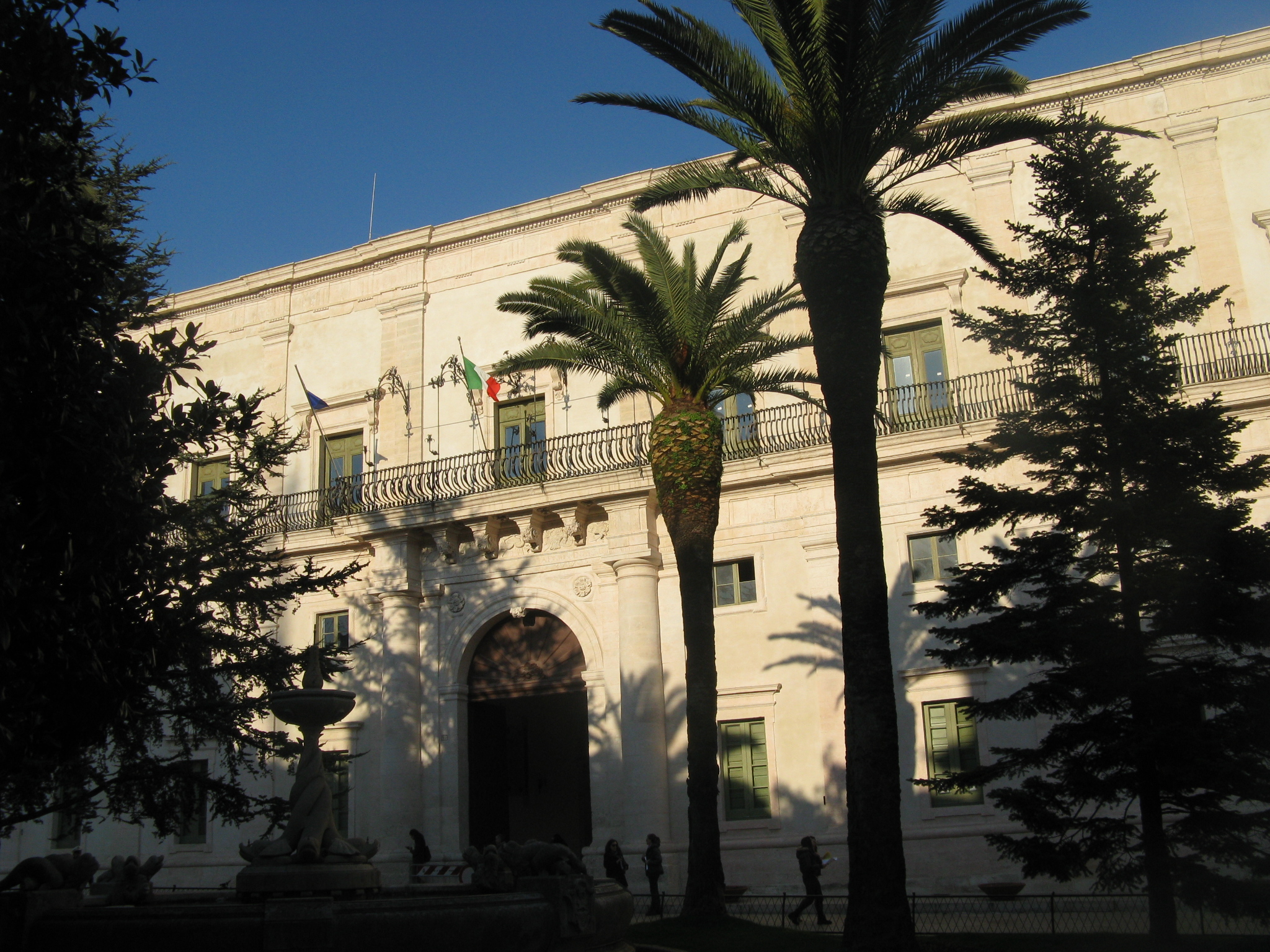 Martina Franca, Palazzo Ducale